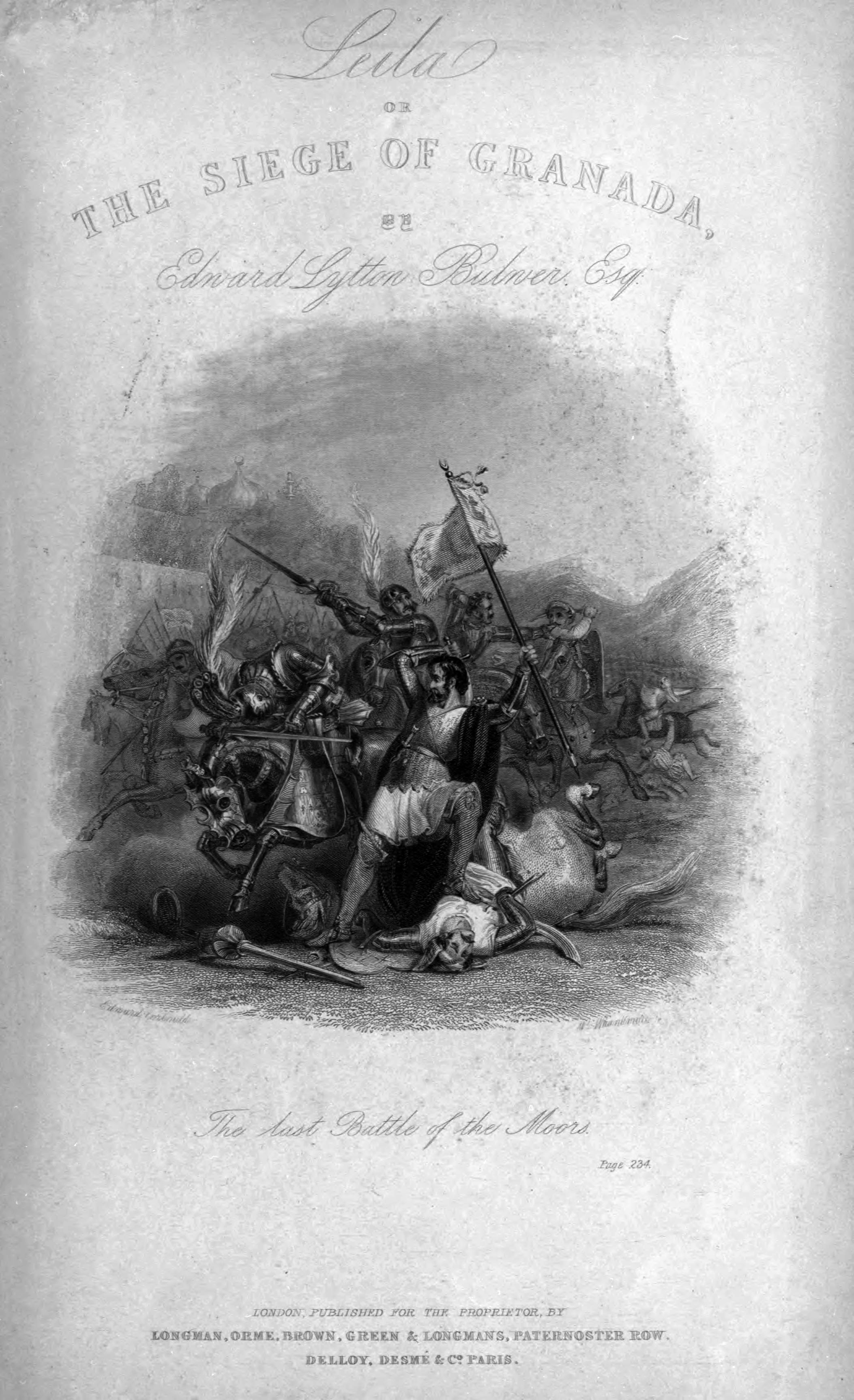 Frontispiece to the first edition of Leila; or, The siege of Granada by Lord Lytton